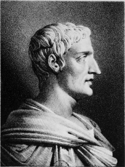 Drawing of the Roman historian Cornelius Tacitus by Julien, based on an antique bust. Original caption: Tacitus / From an Antique Bust